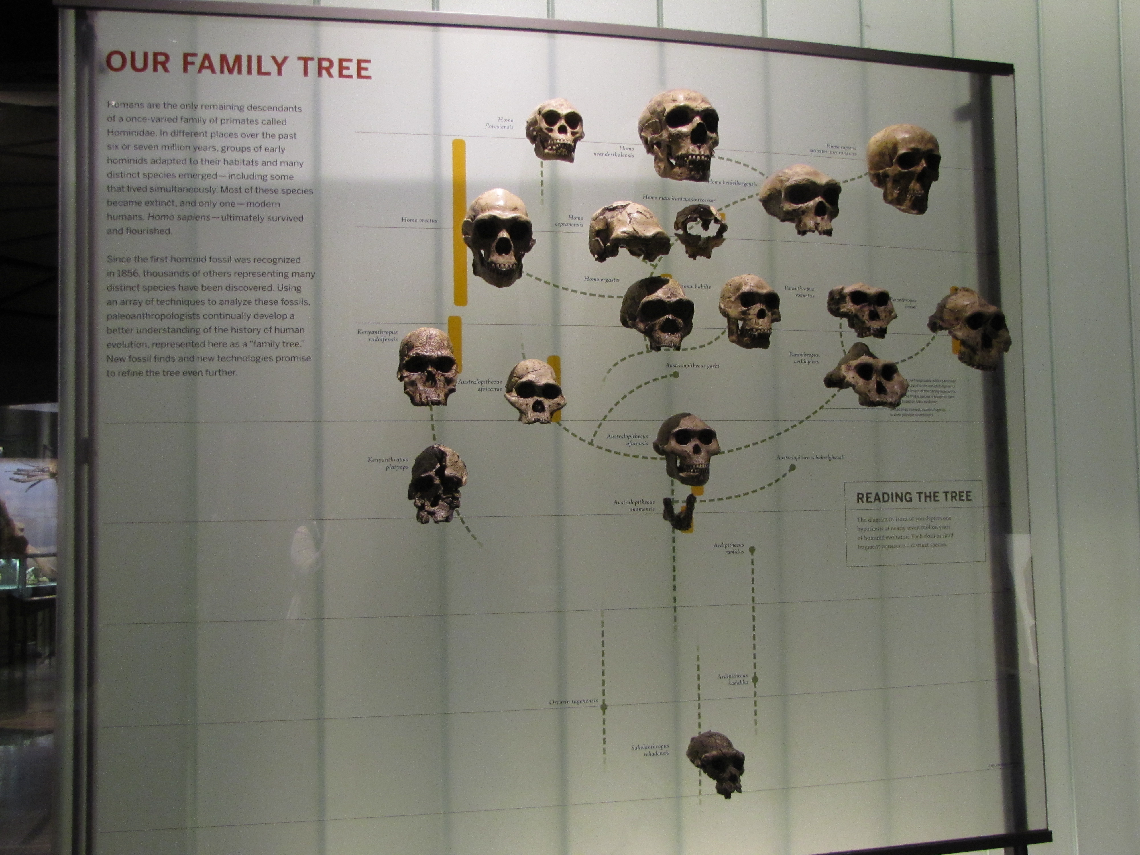 Hominid tree American Museum of Natural History, New York, 2017.